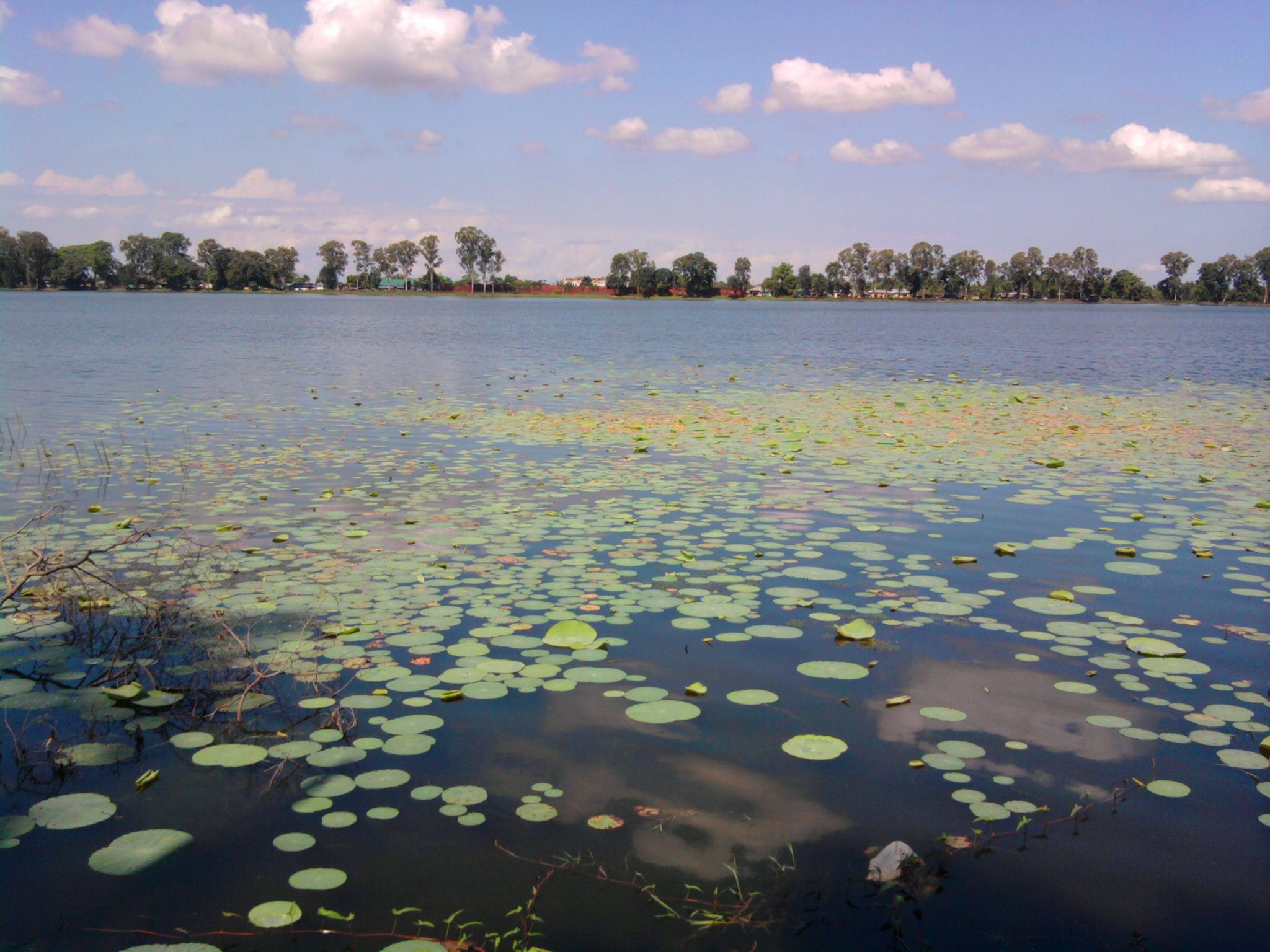 A HISTORICAL TANK SINCE AHOM-RULE